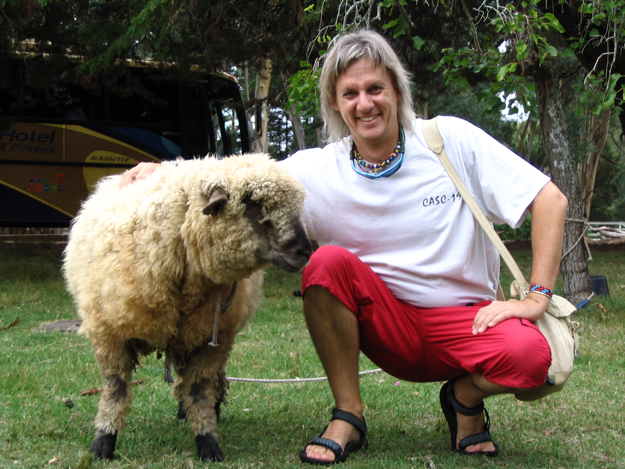 Geoff Sutcliffe during the conference excursion of the 11th International Conference on Logic for Programming, Artificial Intelligence and Reasoning in Montevideo, Uruguay. And a sheep.